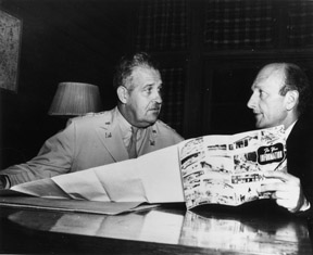 General Leslie R. Groves (left), Director of the Manhattan Project, and David E. Lilienthal, President Harry S. Truman's nominee to chair the United States Atomic Energy Commission, at Oak Ridge, Tennessee, on October 1, 1946. Department of Energy photo.